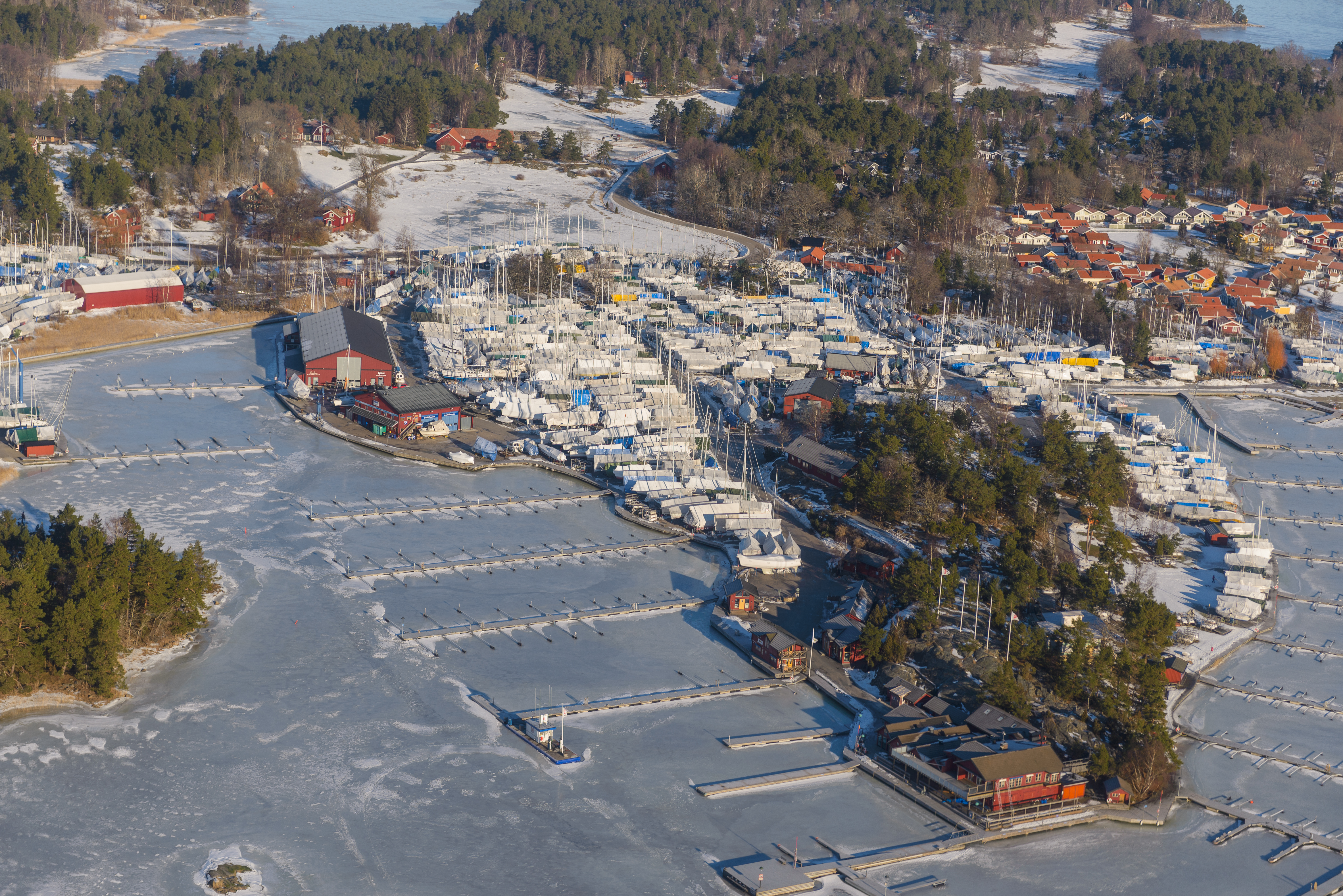 Bullandö marina, Värmdö.